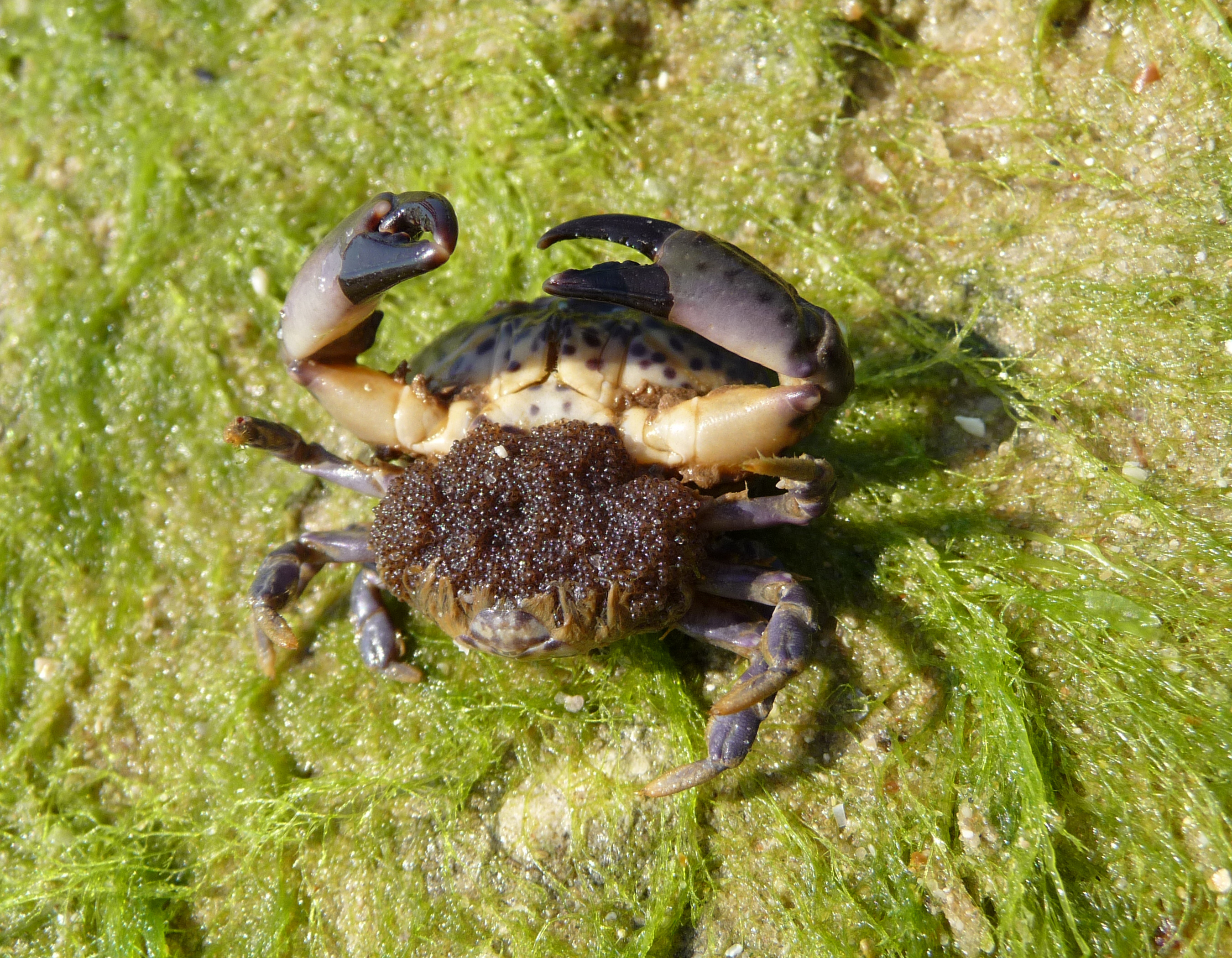 Jaguar round crab Xantho poressa, female at spawning time, carrying eggs under her abdomen. The Black Sea. Ukraine